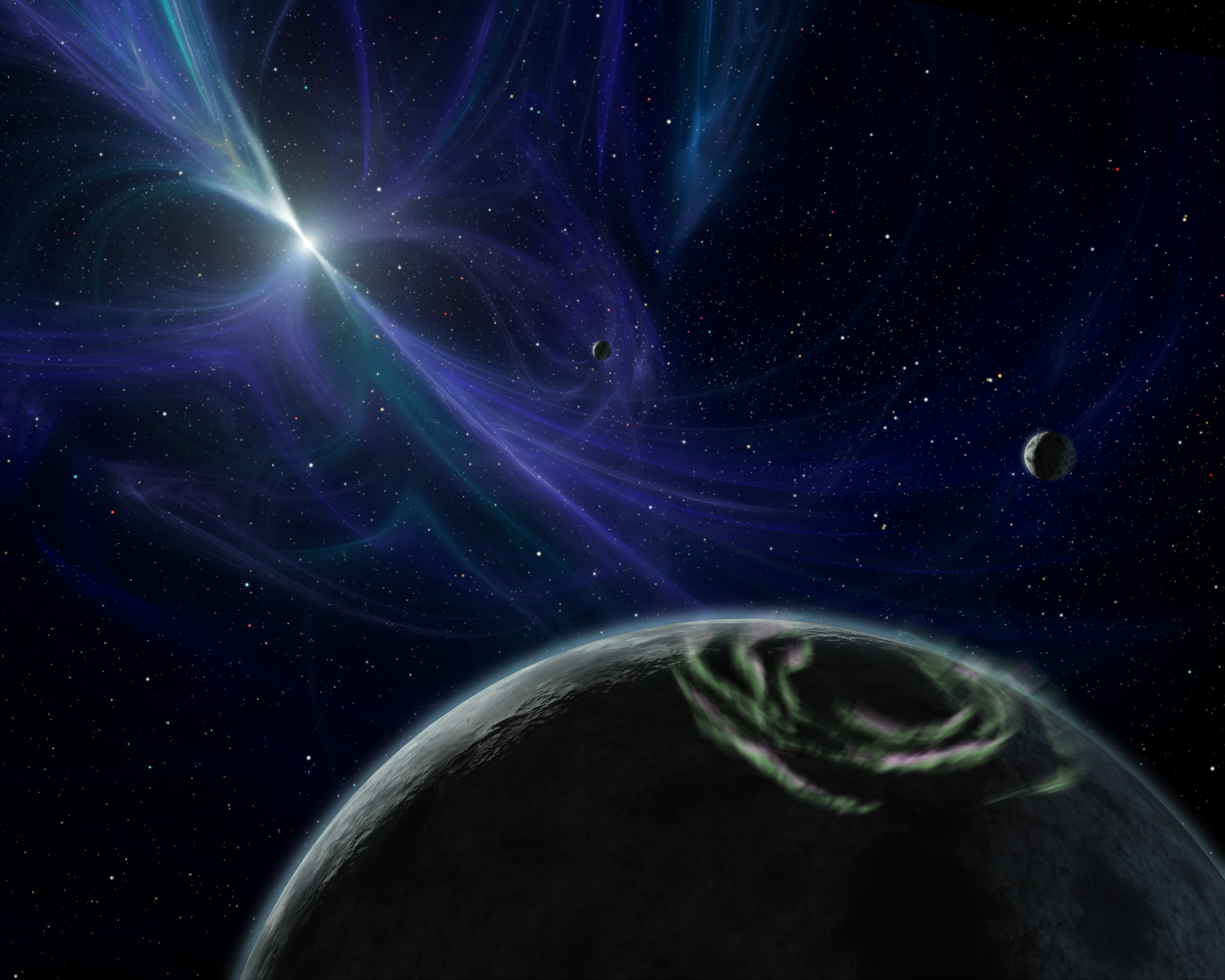 Artists impression of extrasolar planets in the pulsar, PSR B1257+12